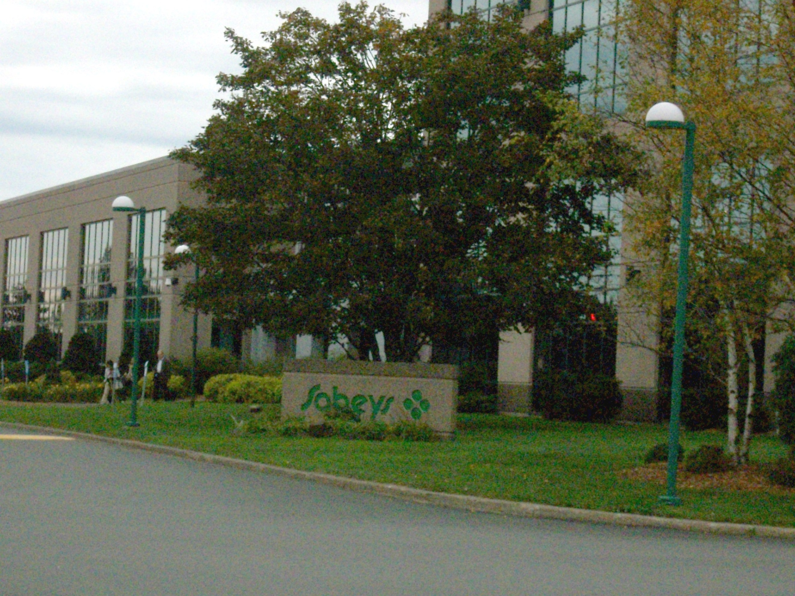 Regional Headquarters of Sobeys in Stellarton, NS (near the entrance) (this is one of two corporate locations in Stellarton)